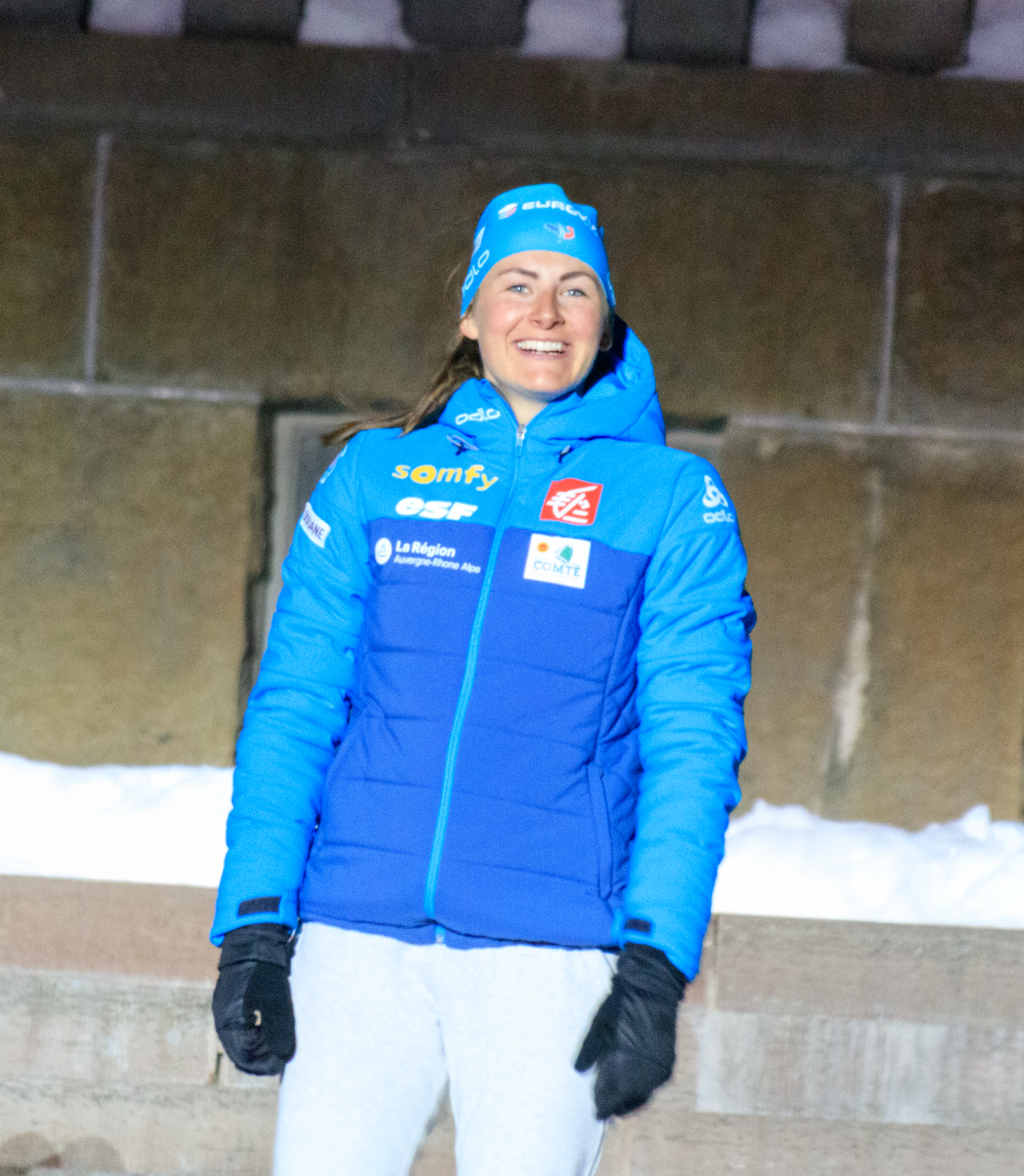 Justine Braisaz at the medalcermoni after 15 km individual at World Championschip in Östersund 2019